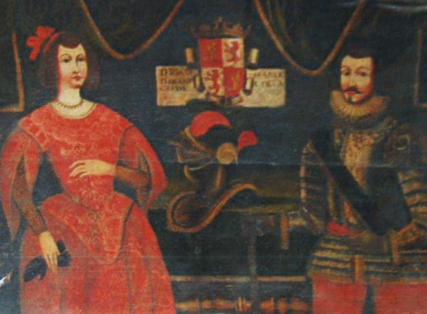 Juan Manuel, Prince of Villena, and Blanche de Lacerda, in a 17th-century painting in the Palace of the Counts of Ficalho, in Serpa, Portugal.